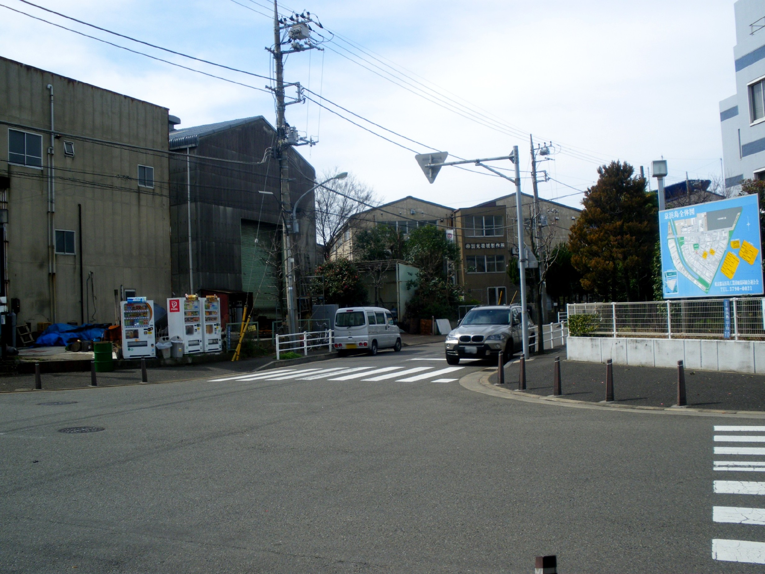 Keihinjima 2-chome (Ota,Tokyo)